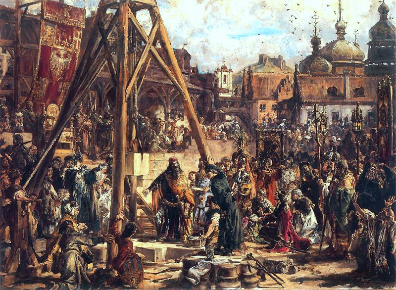 Jan Matejko, 1888 oil on board, entitled "The second work of Ruthenia. Wealth and Education", depicts the cornerstone laying ceremony of cathedral at Lviv. Casimir's expansion into Ruthenia. Casimir III the Great, holding the Piotrków-Wiślica Statutes, throws a ring for the establishment of the first Roman Catholic church in Lviv. From the cycle History of civilization in Poland ( Dzieje cywilizacji w Polsce )